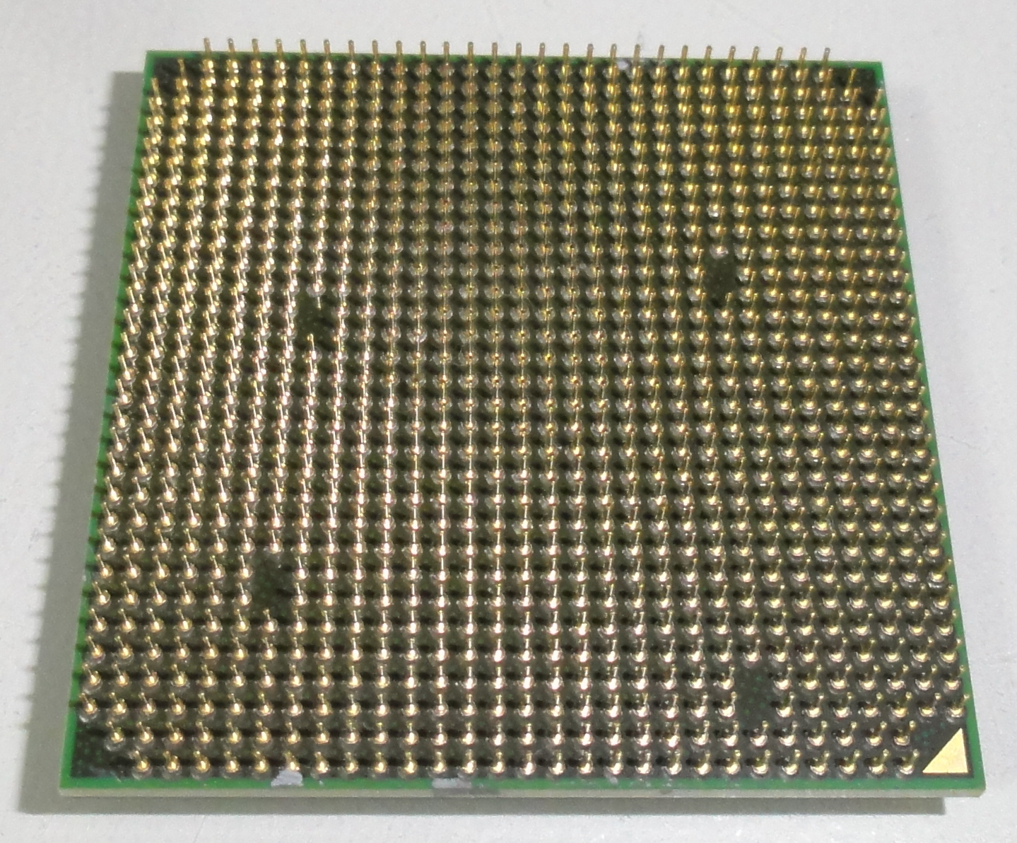 The back side of a Socket AM2+ Phenom X4 9950